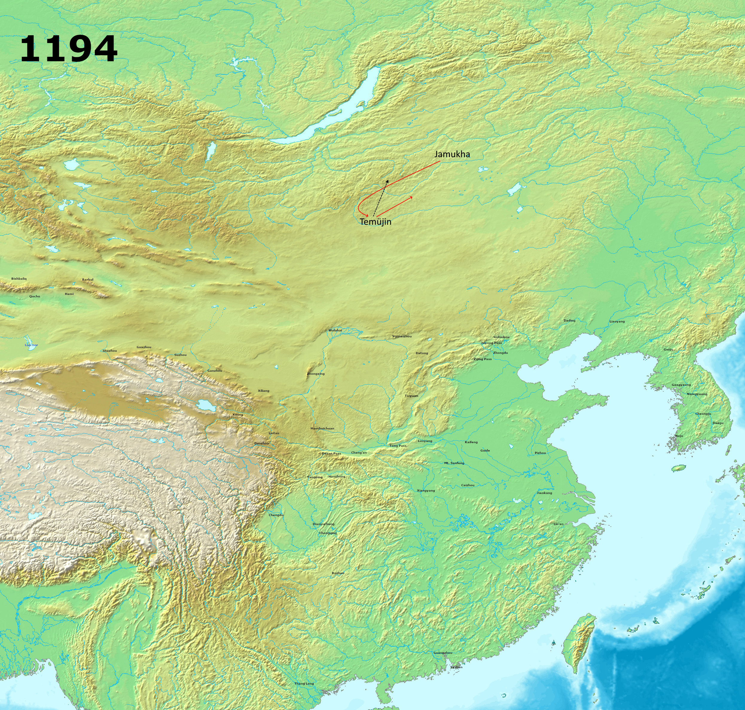 1194 Mongol War